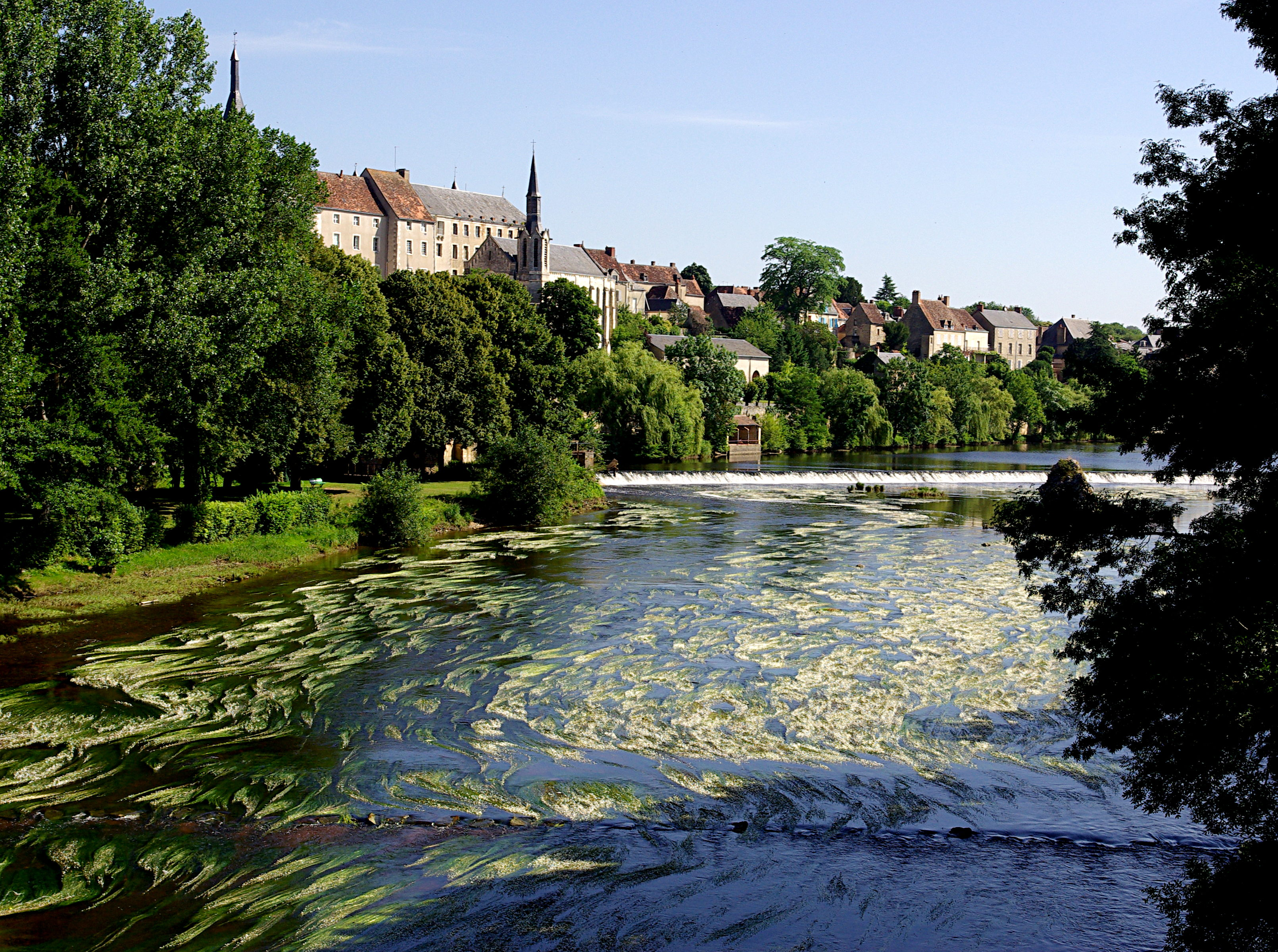 The Creuse river in Saint Gaultier Indre 36 France